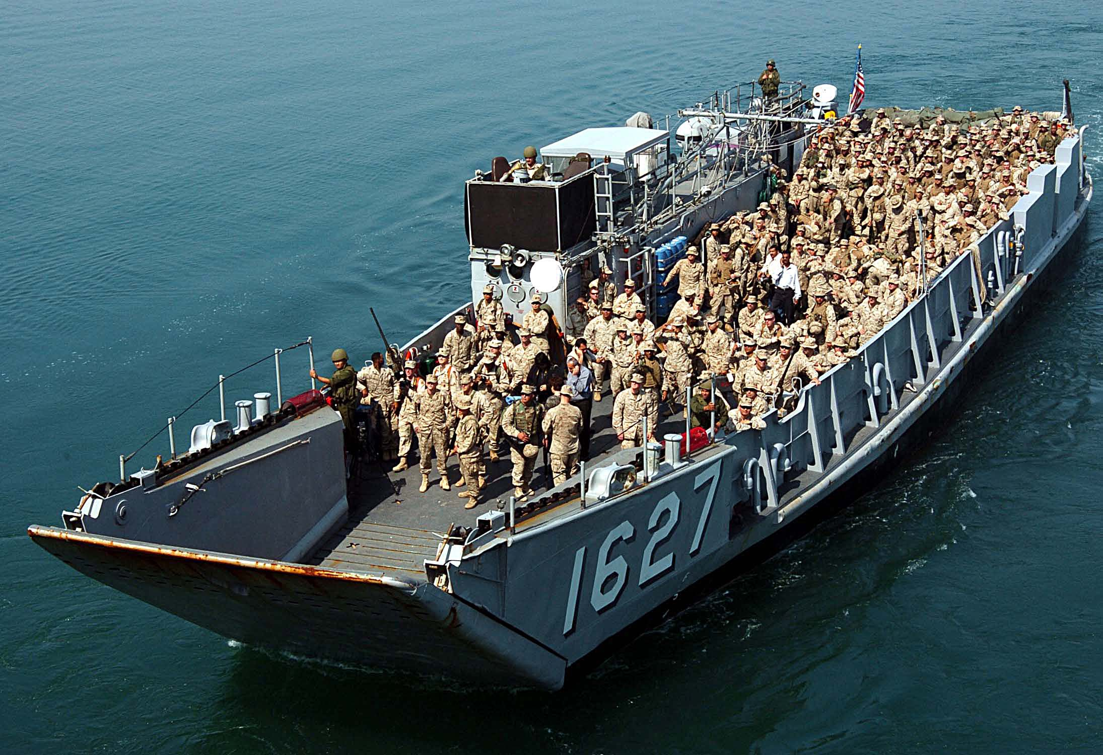 Persian Gulf (Feb. 28, 2005) – U.S. Marines and Sailors, assigned to the 31st Marine Expeditionary Unit (MEU), return to the amphibious assault ship USS Essex (LHD 2) aboard Landing Craft Utility 1627 (LCU 1627). The 31st MEU spent five months in Iraq conducting combat operations. Essex is forward deployed from Sasebo, Japan, and will be making the transit home once the 31st MEU backload is complete.